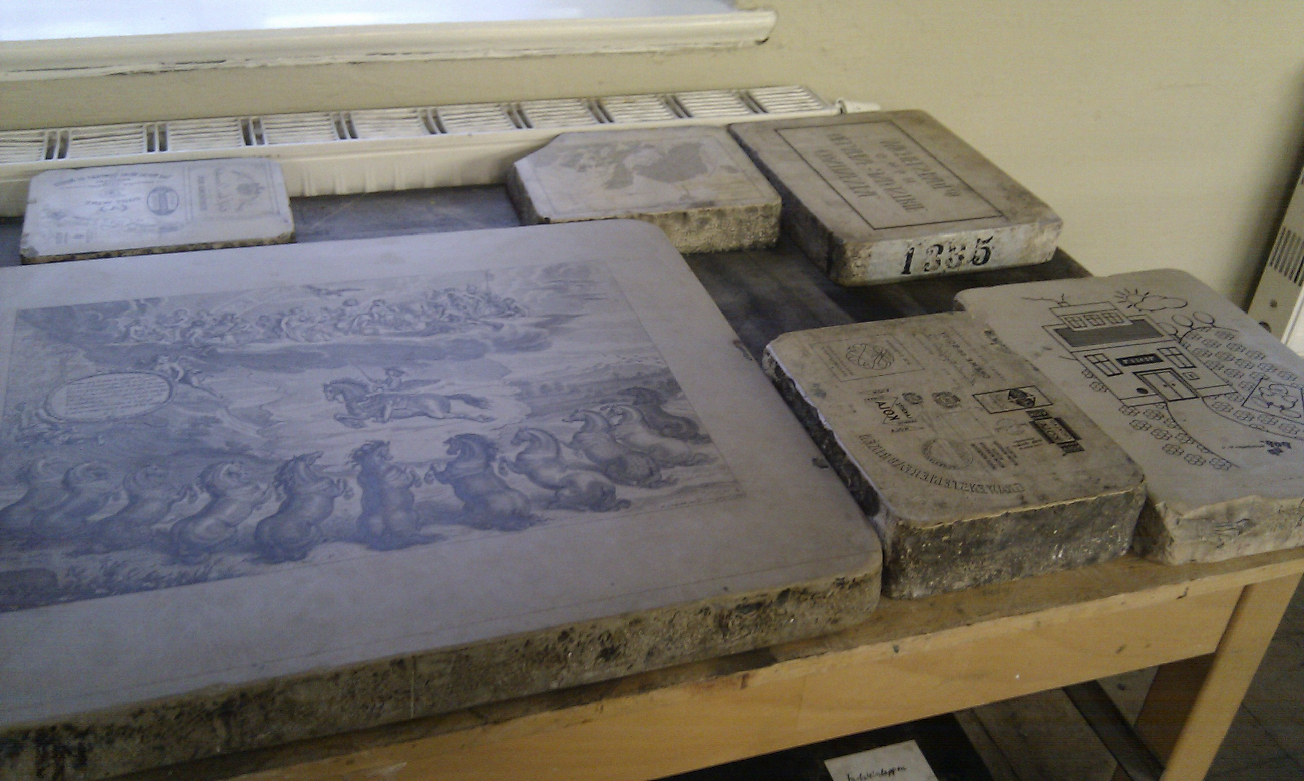 Print museum (plates, machines and print equipment): Leipzig, Germany